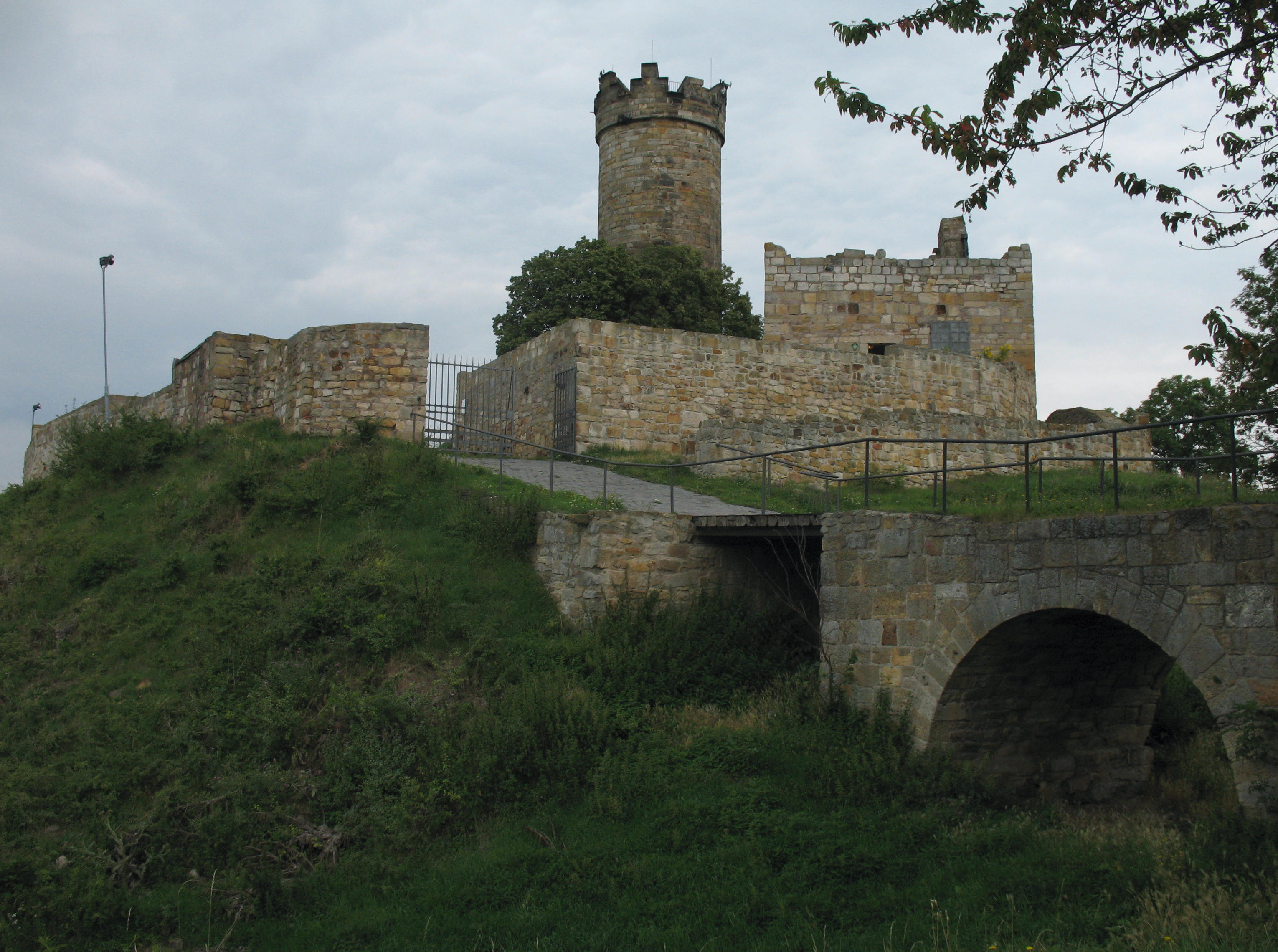 Castle „Mühlburg“ in Mühlberg in Thuringia, Germany